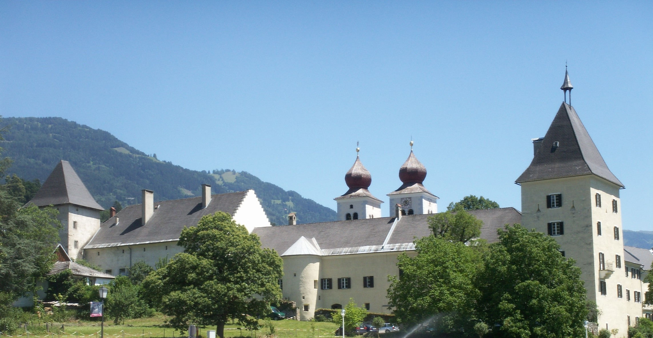 Millstatt Abbey Millstatt district Spittal an der Drau in Carinthia / Austria / European Union. Monestry seen from west.